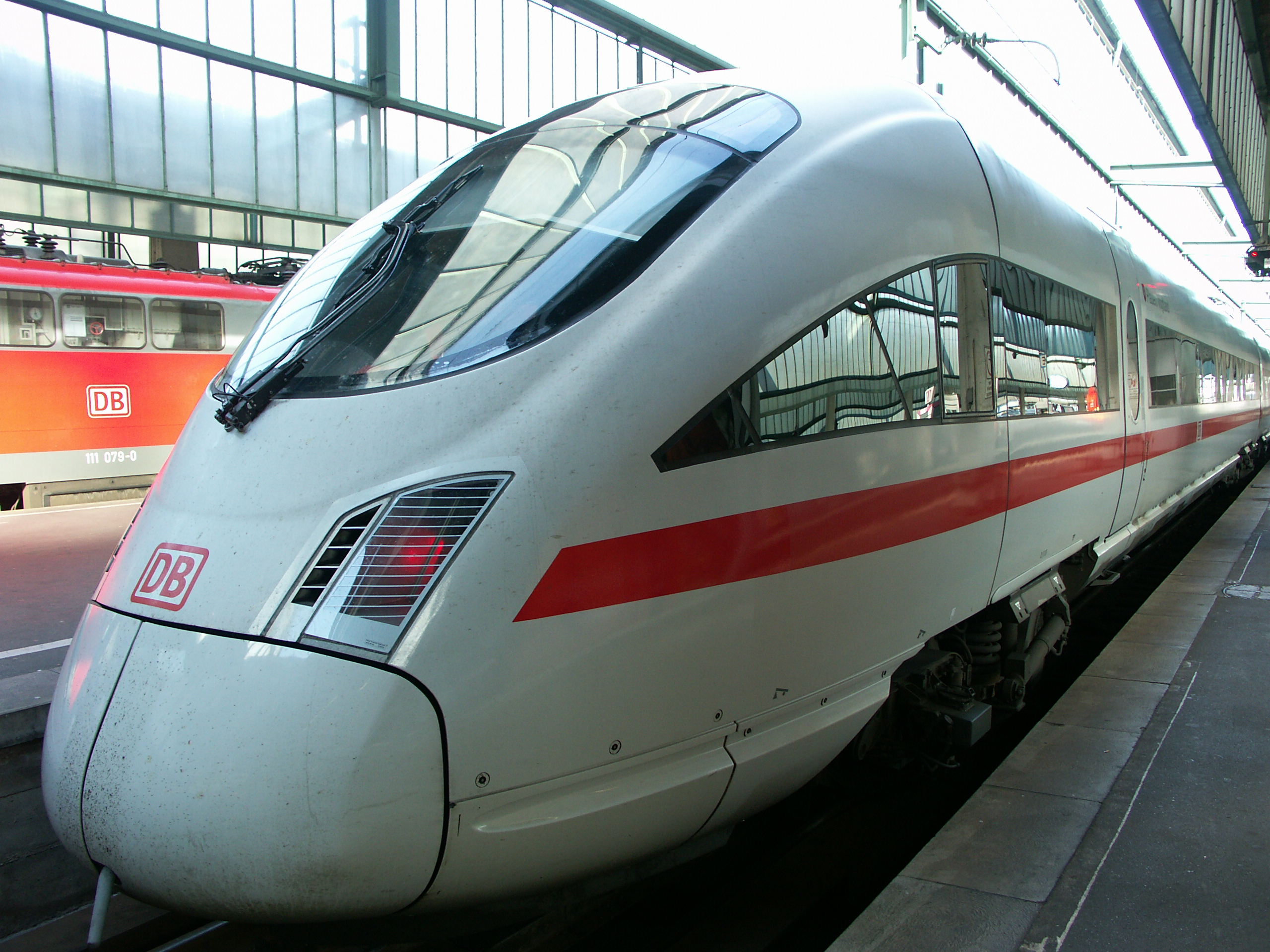 ICE-T at Stuttgarter Hauptbahnhof